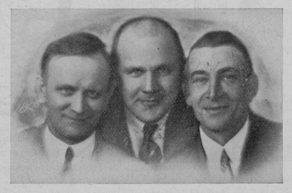 The Finnish singers Tatu Pekkarinen, Aapo Similä and Rafael Ramstedt in 1928